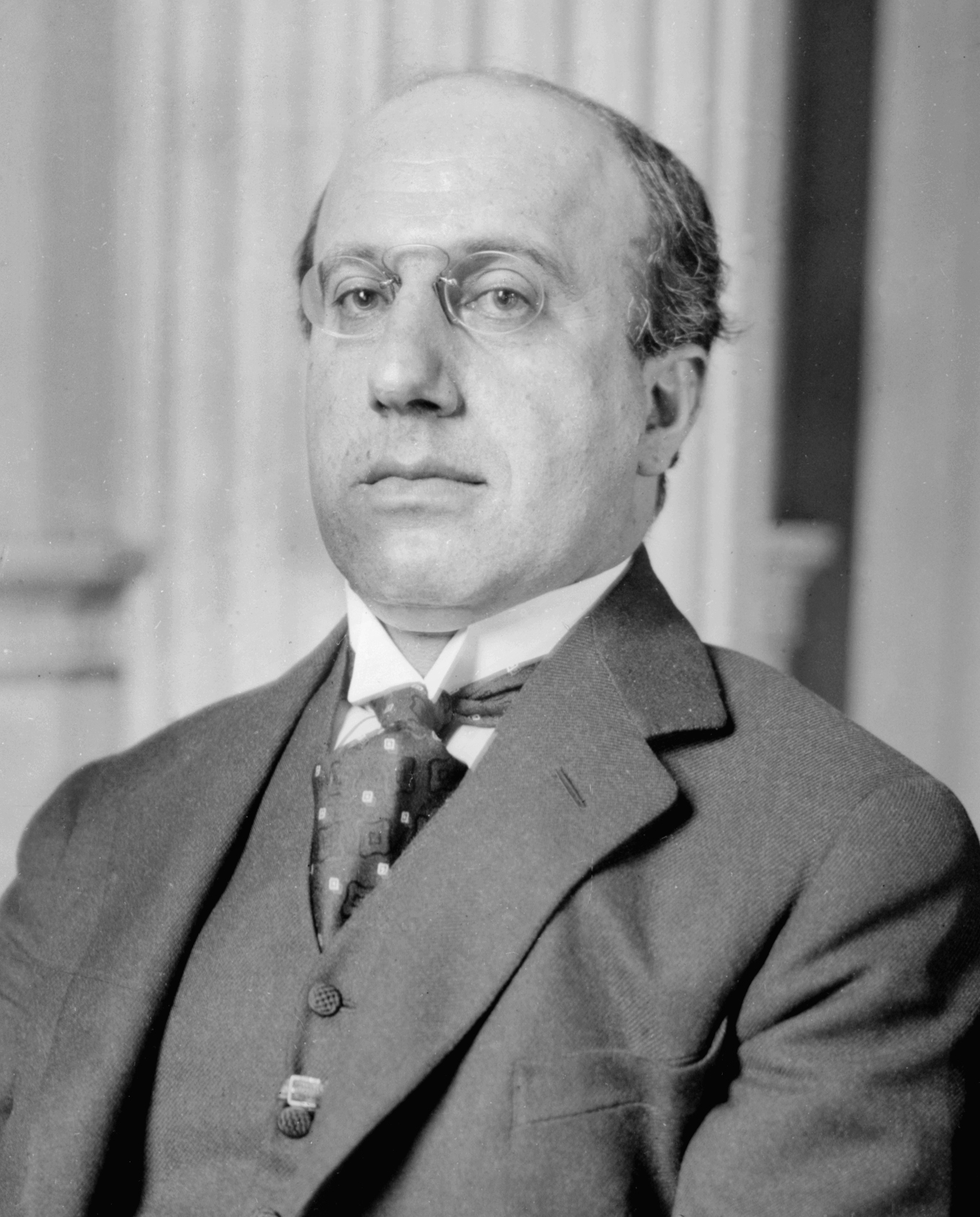 Photograph shows Jacob Hollander who was scheduled to testify at the 1915 hearings of the federal Commission on Industrial Relations at the New York City Hall, New York City.